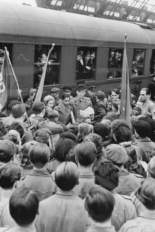 Arrival of the first Indian student to Dresden. He was to study electrical engineering in Dresden Technical University